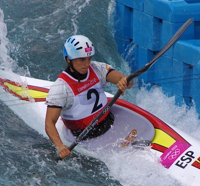 Canoeing at the 2012 Summer Olympics – Women's slalom K-1 Maialen Chourraut (ESP)